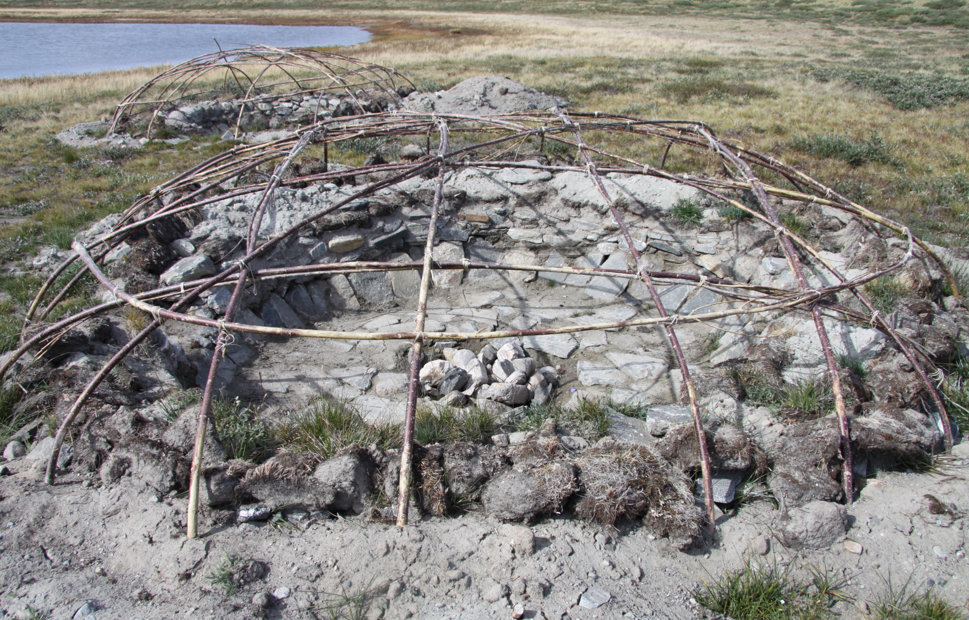 Inuit's camping site near lake Aajuitsup Tasia, Western Greenland - Google Maps - Google Earth